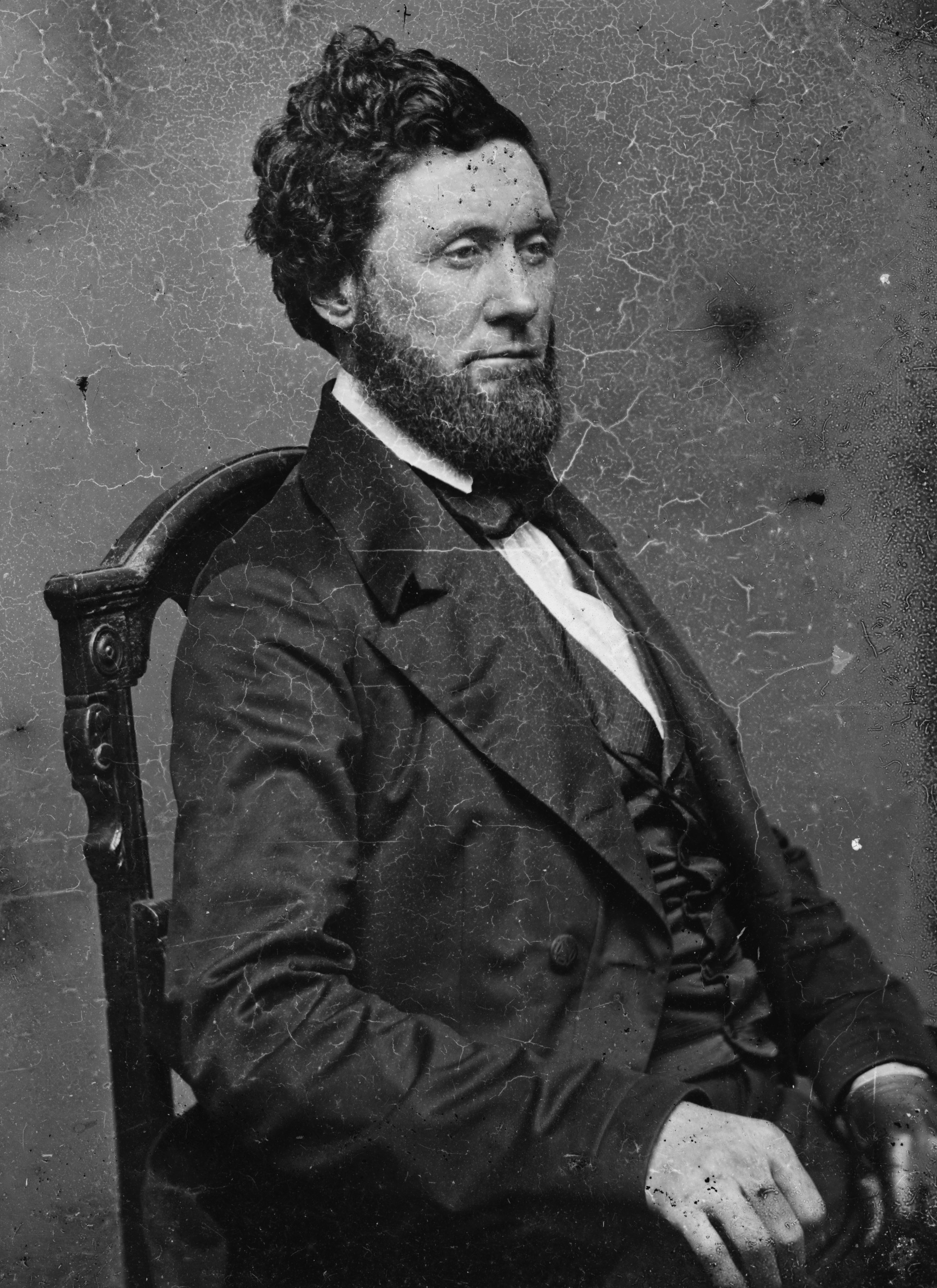 John Nelson, former United States Attorney General (1843-45). Also member of the U.S. House of Representatives (Whig-Maryland, 1841-43).